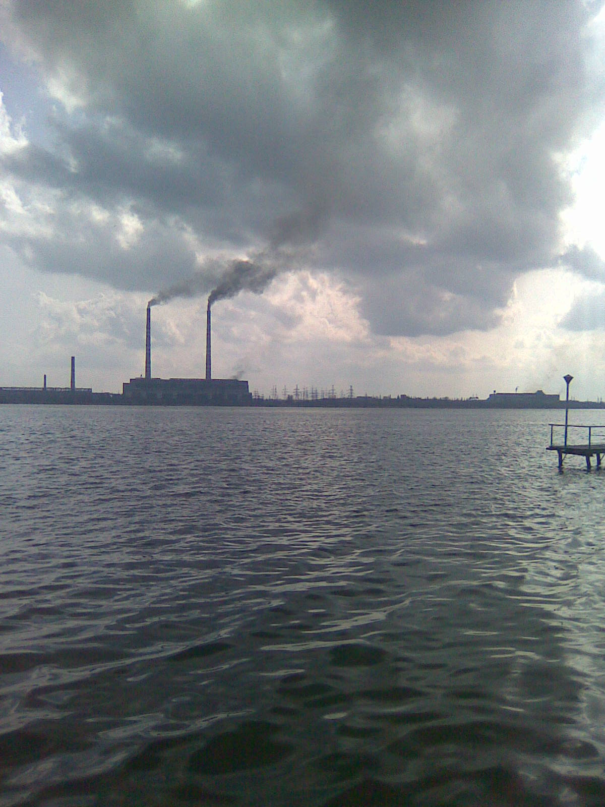 Kurahovo power station, Kurahovo, Donbass, Ukraine